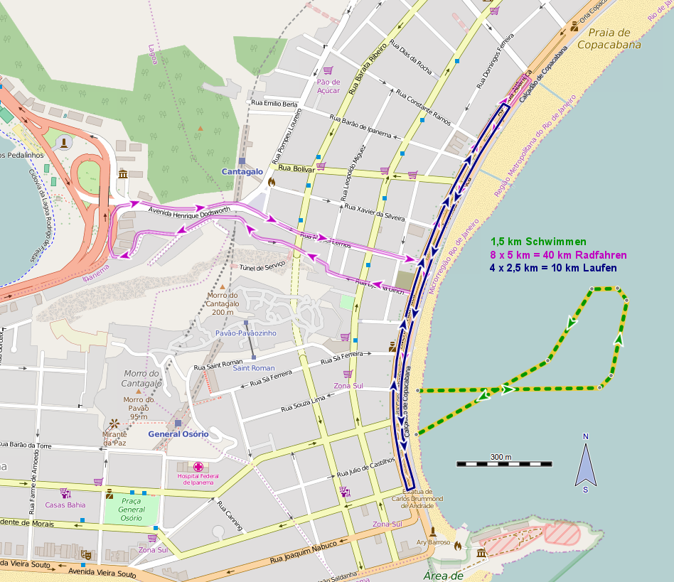 Course Triathlon Olympic Games Rio 2016